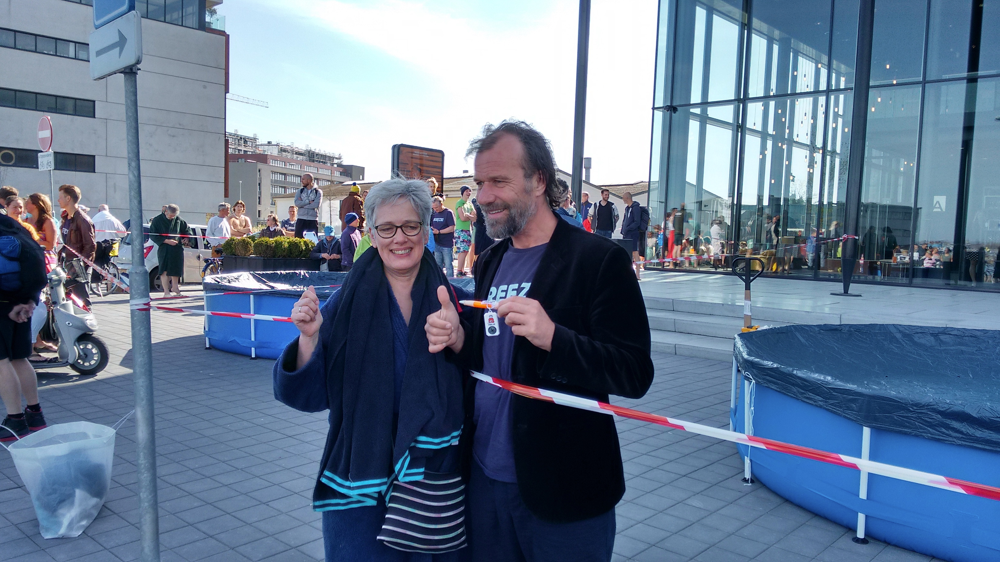 Wim Hof at event in Theater Amsterdam